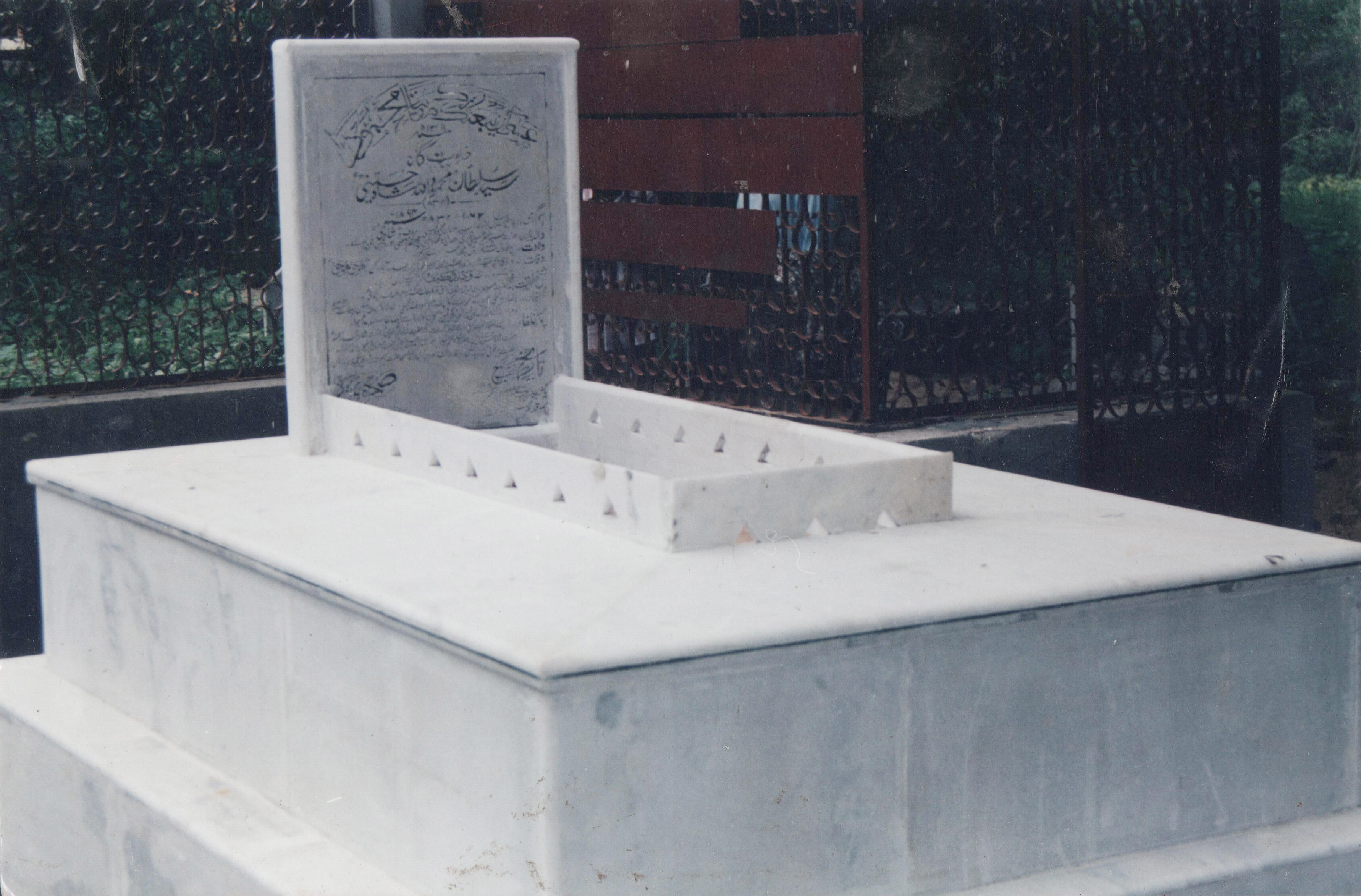 Hazrath syed sultan mahmoodullah shah hussaini(Rh) mazar shareef in hyderabad, india